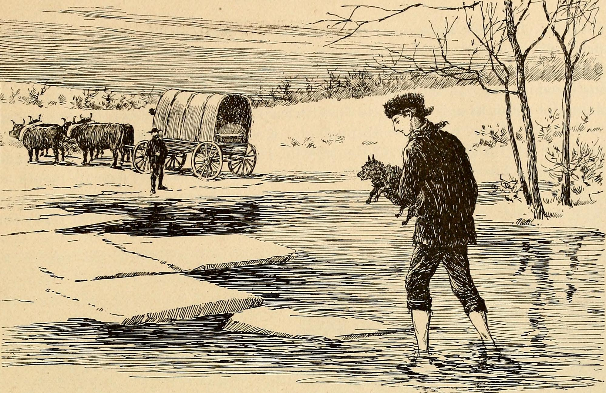 Title: Life of Abraham Lincoln : being a biography of his life from his birth to his assassination ; also a record of his ancestors, and a collection of anecdotes attributed to Lincoln Year: 1896 (1890s) Authors: Nichols, Clifton M. (Clifton Melvin), 1830-1903 McKinley, William, 1843-1901. Oration on Abraham Lincoln Lowell, James Russell, 1819-1891. Abraham Lincoln Knox, William, 1789-1825. Oh! Why should the spirit of mortal be proud? Subjects: Lincoln, Abraham, 1809-1865 Lincoln, Abraham, 1809-1865 Lincoln, Abraham, 1809-1865 Presidents Publisher: New York City Springfield, Ohio Chicago, Ill. : Mast, Crowell & Kirkpatrick Text Appearing Before Image: grave is marked by the stone under flag.) US that the Indian word from which the name of the state was derived wasIllini, signifying the Land of full-grown men. Thomas Lincoln moved at least three times in search of a location, and finallysettled on Goosenest Prairie, in Coles county, near Farmington, where he died,in 1851, at the ripe old age of seventy-three. He had mortgaged his little farmof forty acres for two hundred dollars, but Abraham had paid the debt and takena deed of the land, which contained the clause, With a reservation of a lifeestate therein to them or the survivor of them. As soon as Abraham got up alittle in the world, he began to send his stepmother money, and continued to doso until his own death. Sarah Bush Lincoln died April 10, 1869. It was in April, 1830, that Lincoln left home for good. He did not go far,but sought work in the neighborhood among the settlers. Rail-splitting seemedto be the favorite kind of work. In March, 1831, he was fortunate in meeting a Text Appearing After Image: LINCOLN CROSSING THE STBEAM WITH THE DOG.